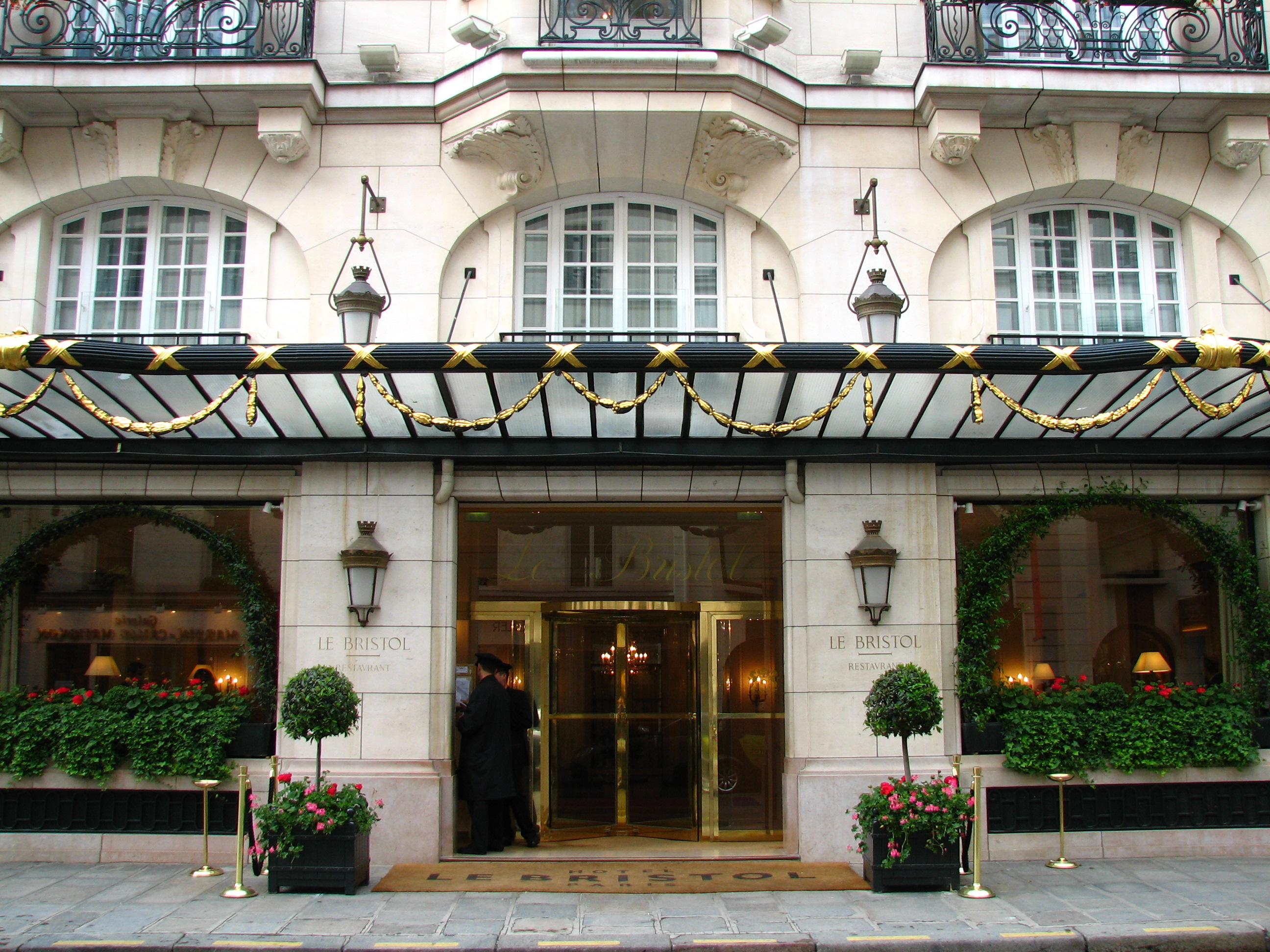 Le Bristol Hotel in Paris, France.